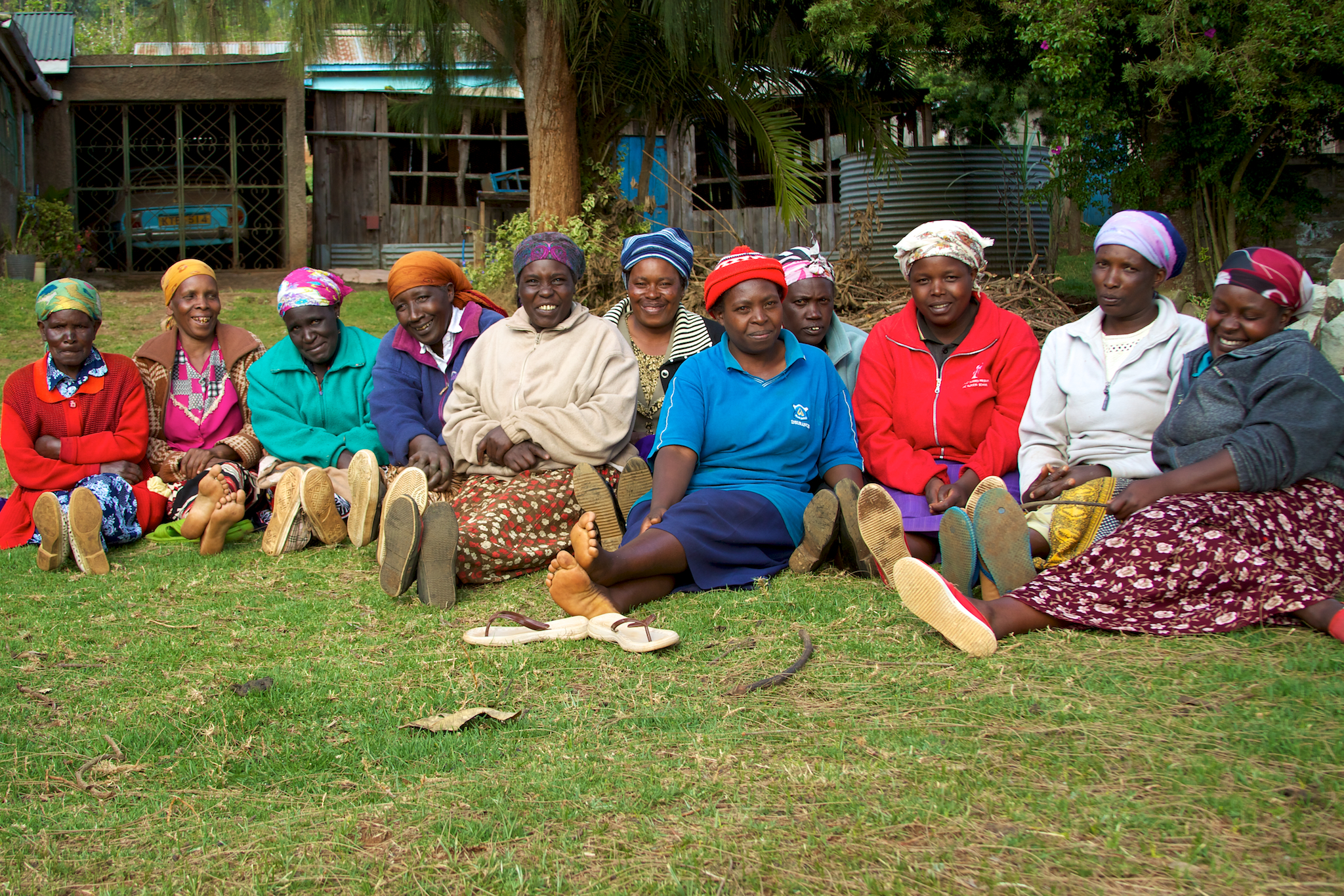 A very poor self-help group (SHG) in Limuru. Limuru is lush highlands and is a major flower and tea growing region, but for those with little land, the area is still food insecure when they experience drought every 2-3 years. These women lease a 1/2 acre plot where they grow potatoes and beans. Life is challenging and they are forced to withdraw and use their savings during lean times for seeds and other inputs. They have been trained by NALEP on farming techniques. They have also been trained to do soap making, manufacture fireless cookers and plum jam and baking, but they currently lack the capital and business skills to turn these into enterprises. With more capital they would also like to increase their farm size.